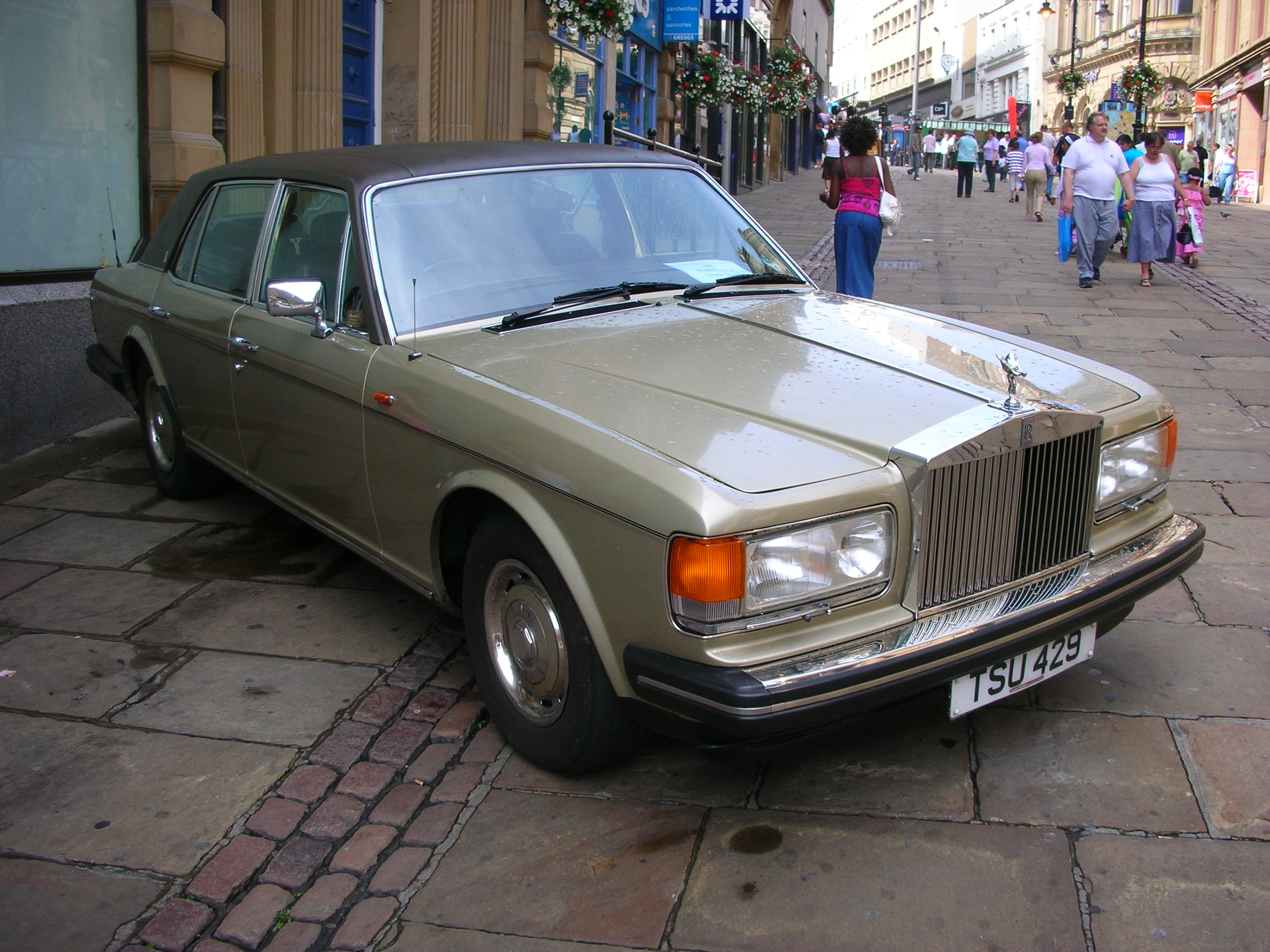 1981 Rolls Royce Silver Spirit